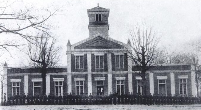 Postcard of the Patrick Military Institute of Anderson County, South Carolina, ca. 1893